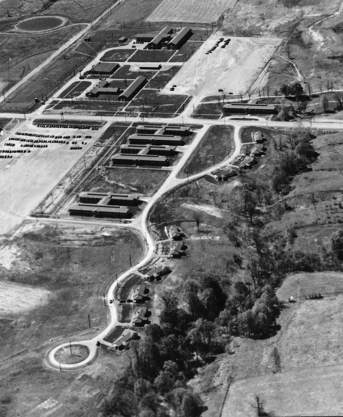 Aerial of Staffhouse Row and Dormatories, West Virginia Ordnance Works, near Point Pleasant, WV